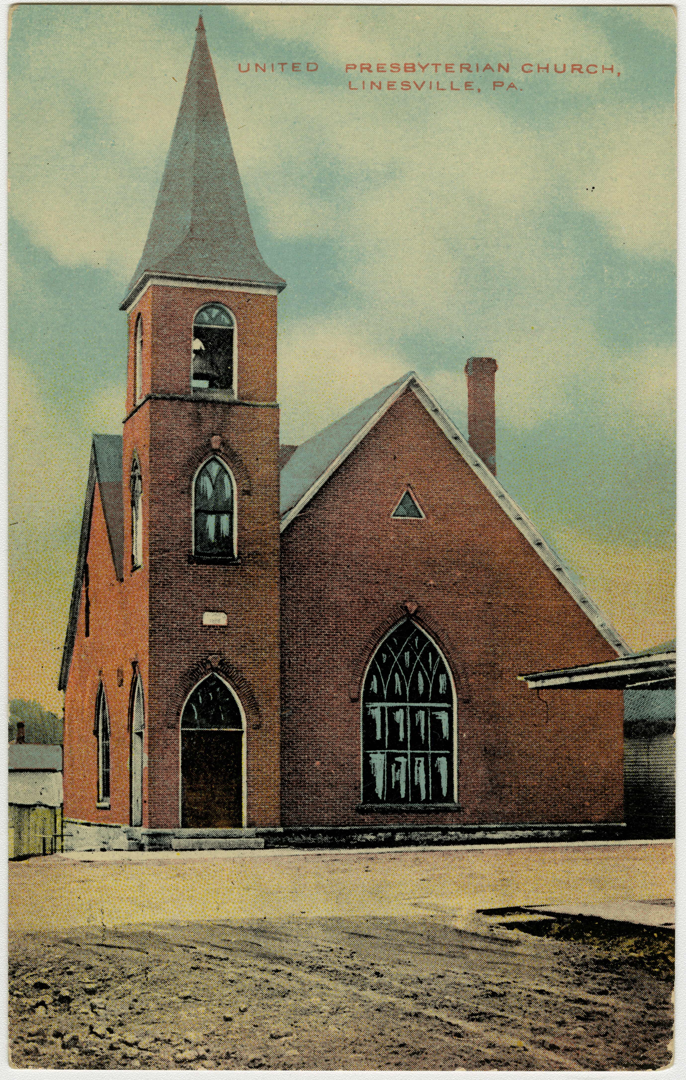 United Presbyterian Church in Linesville, Pennsylvania from a pre-1923 postcard. Still standing at 206 W Erie St, Linesville, PA 16424 From RG 428, Postcard Collection, Presbyterian Historical Society, Philadelphia, Pennsylvania.